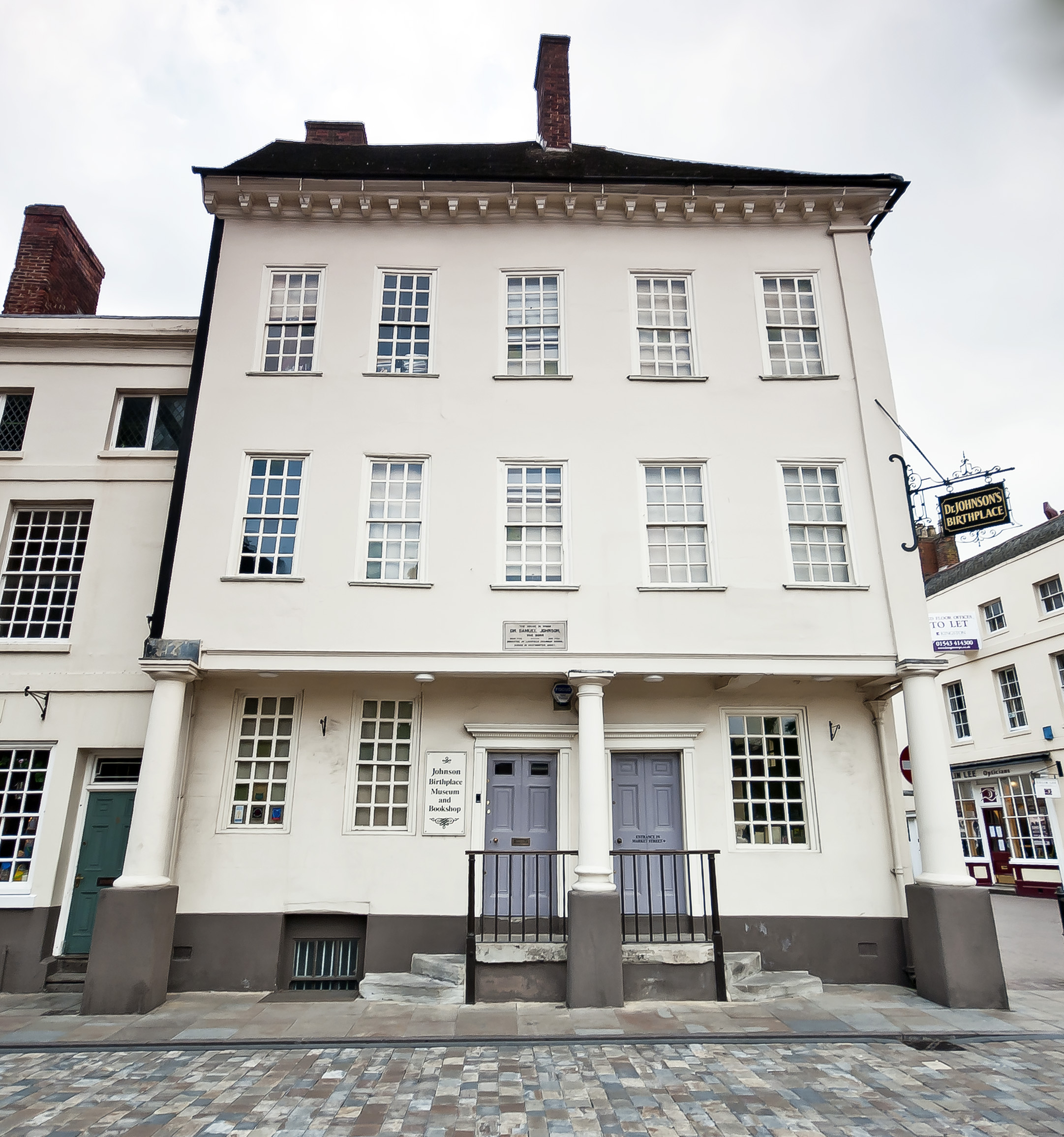 Samuel Johnson Birthplace Museum, Lichfield, Staffordshire. Photograph taken in April 2011.